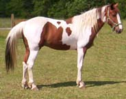 A typical 8 year old Missouri Fox Trotter. Pinto color